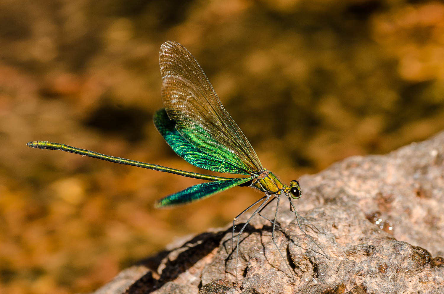 Neurobasis chinensis- Male, flashing its wings.